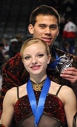 Katherine Bobak and Ian Beharry in December 2011 at the 2011-2012 Junior Grand Prix Final.